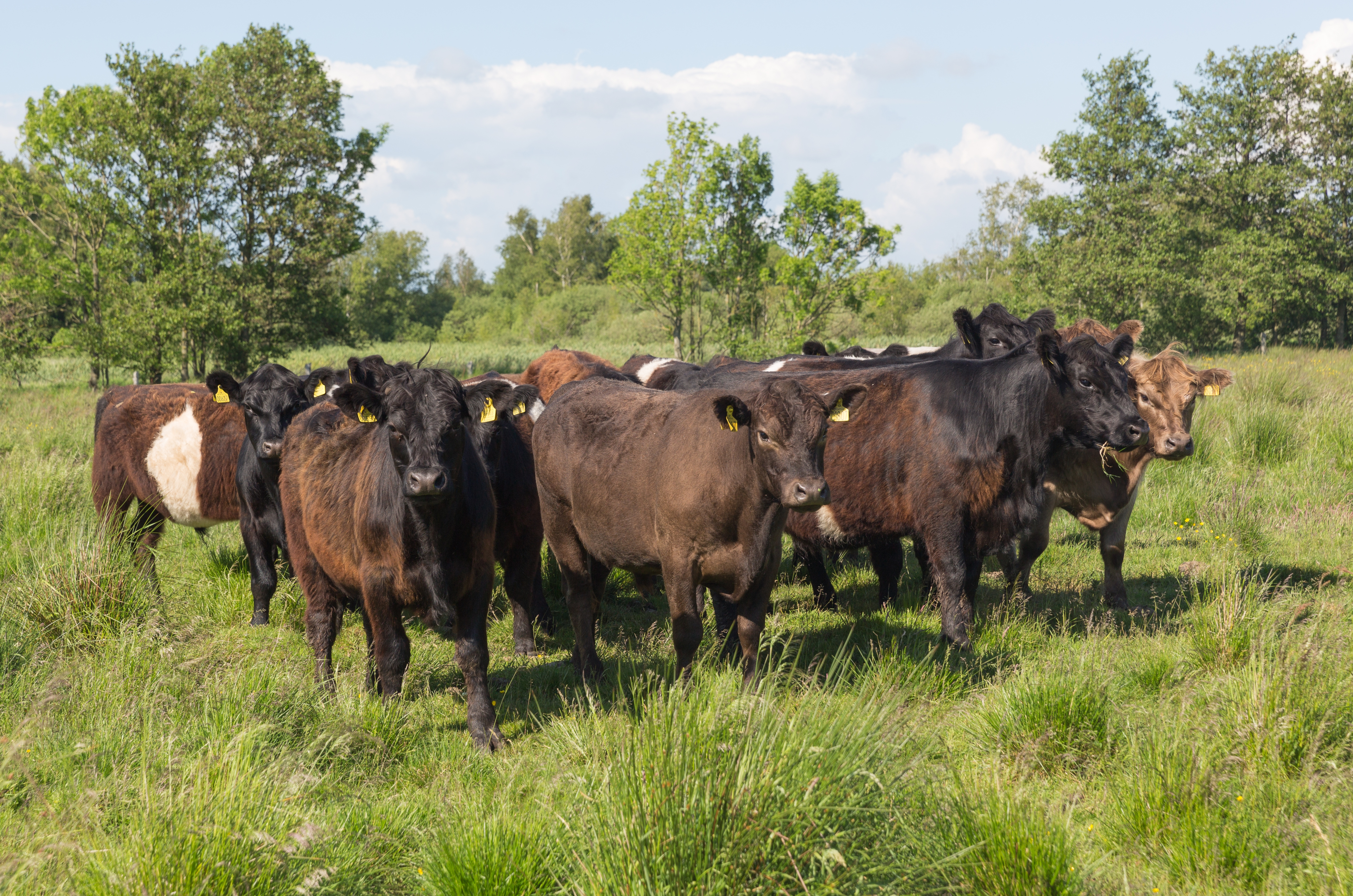 Galloway cattle in Kasted Mire